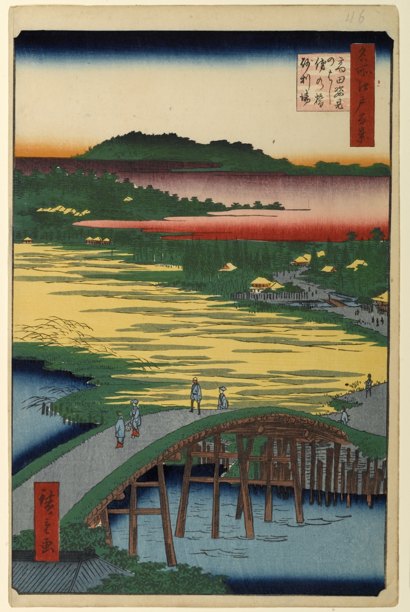 Part of the series One Hundred Famous Views of Edo, no. 116, part 4: Winter.